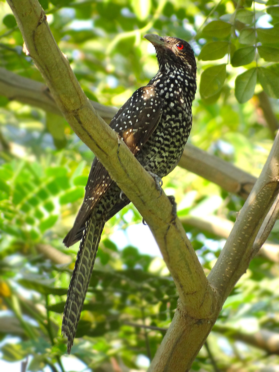 Asian Koel (Female) photographed in India.